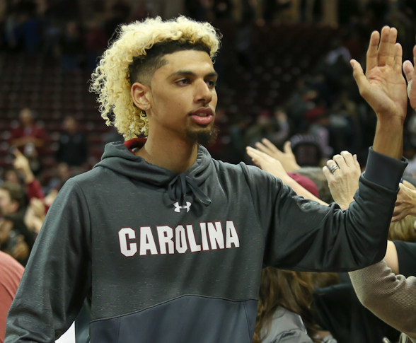 Photo by Chris Gillespie